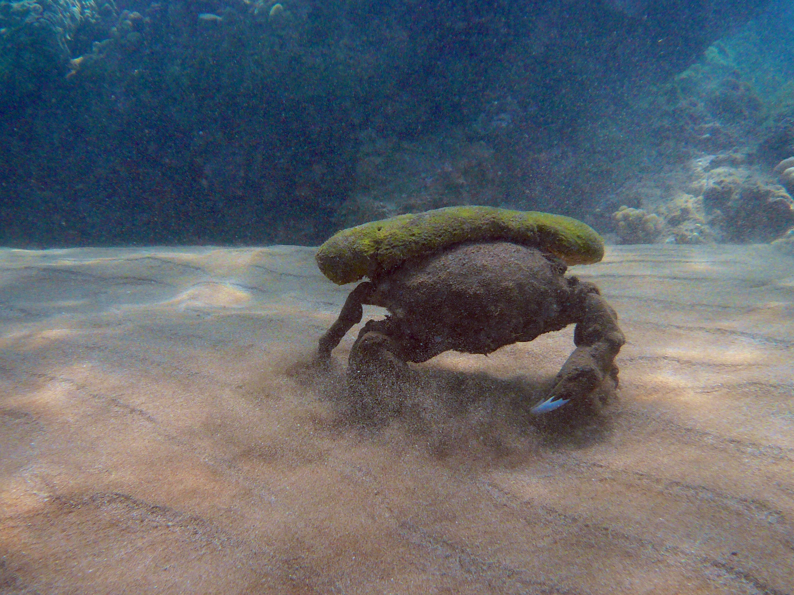 Dromia dormia crab with sponge on the back